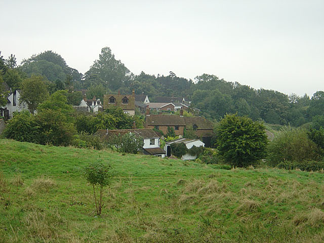 Brill village from Brill Common A mixture of building styles is evident in this part of Brill village, taken from near the windmill on the Common.